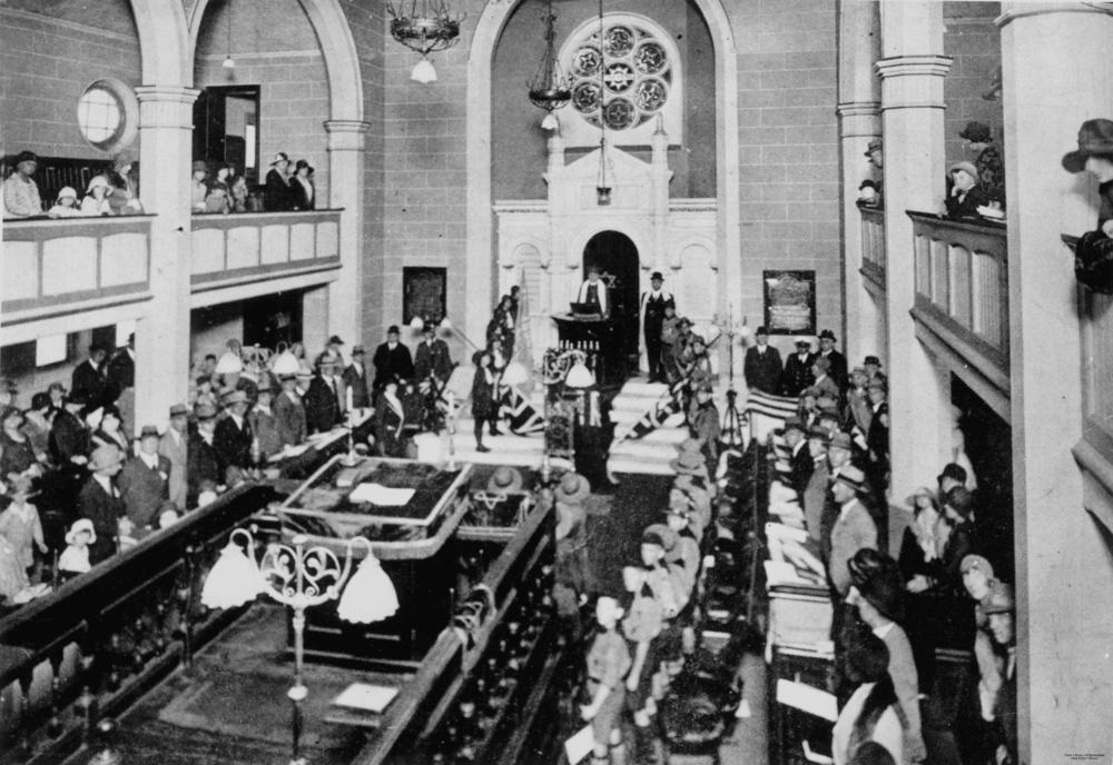 Anzac Day ceremony in the Synagogue, Brisbane, 1930 The congregation fills the stalls and a large number of Girl Guides and Boy Scouts are present for the service. Some of the children bear flags as they flank the presider. The structural design and layout of the synagogue is featured.